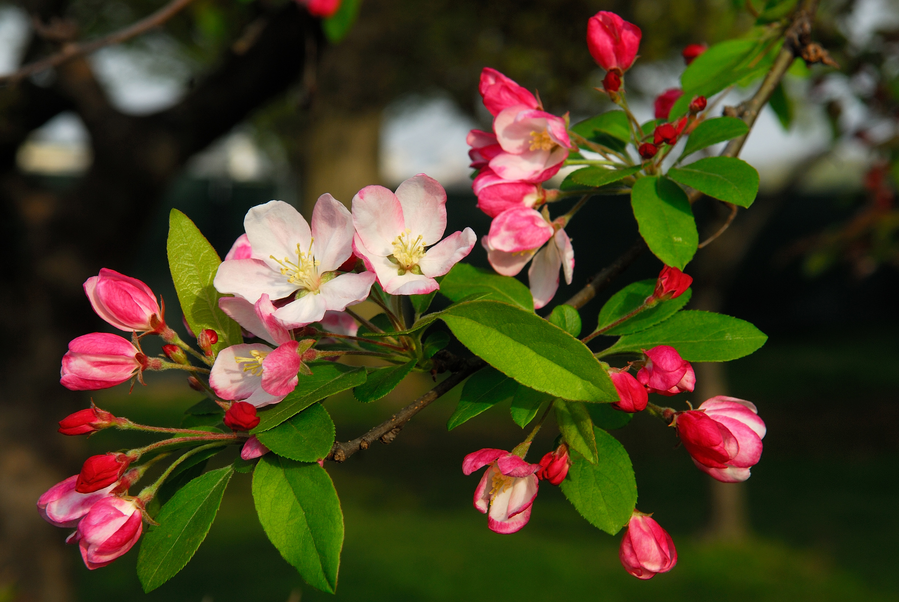 Flowering crab apple in Washington DC during the National Cherry Blossom Festival.